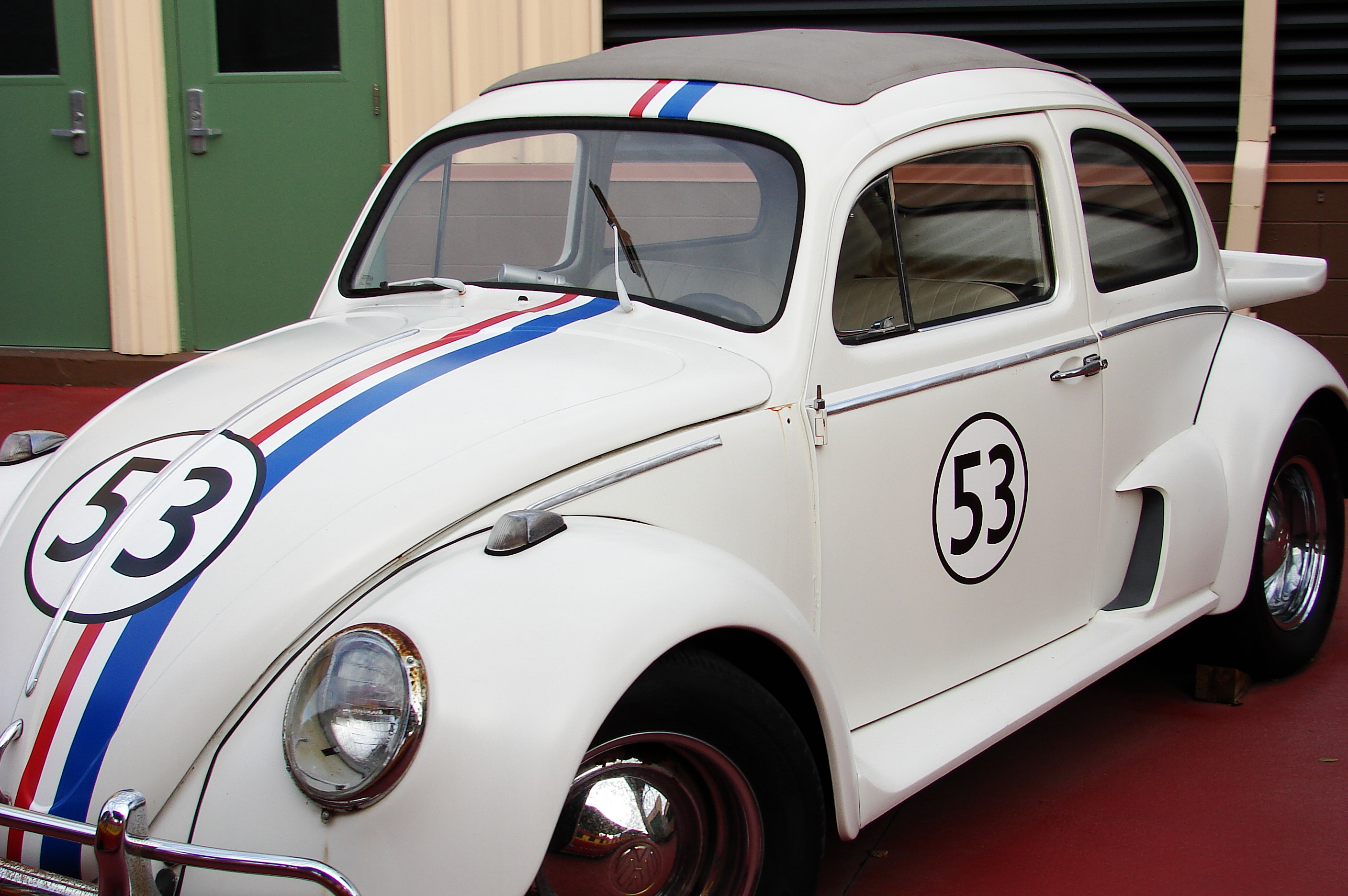 Herbie the Love Bug (2005 version from Herbie: Fully Loaded), on a back lot at Disney's Hollywood Studios (Orlando, Florida).